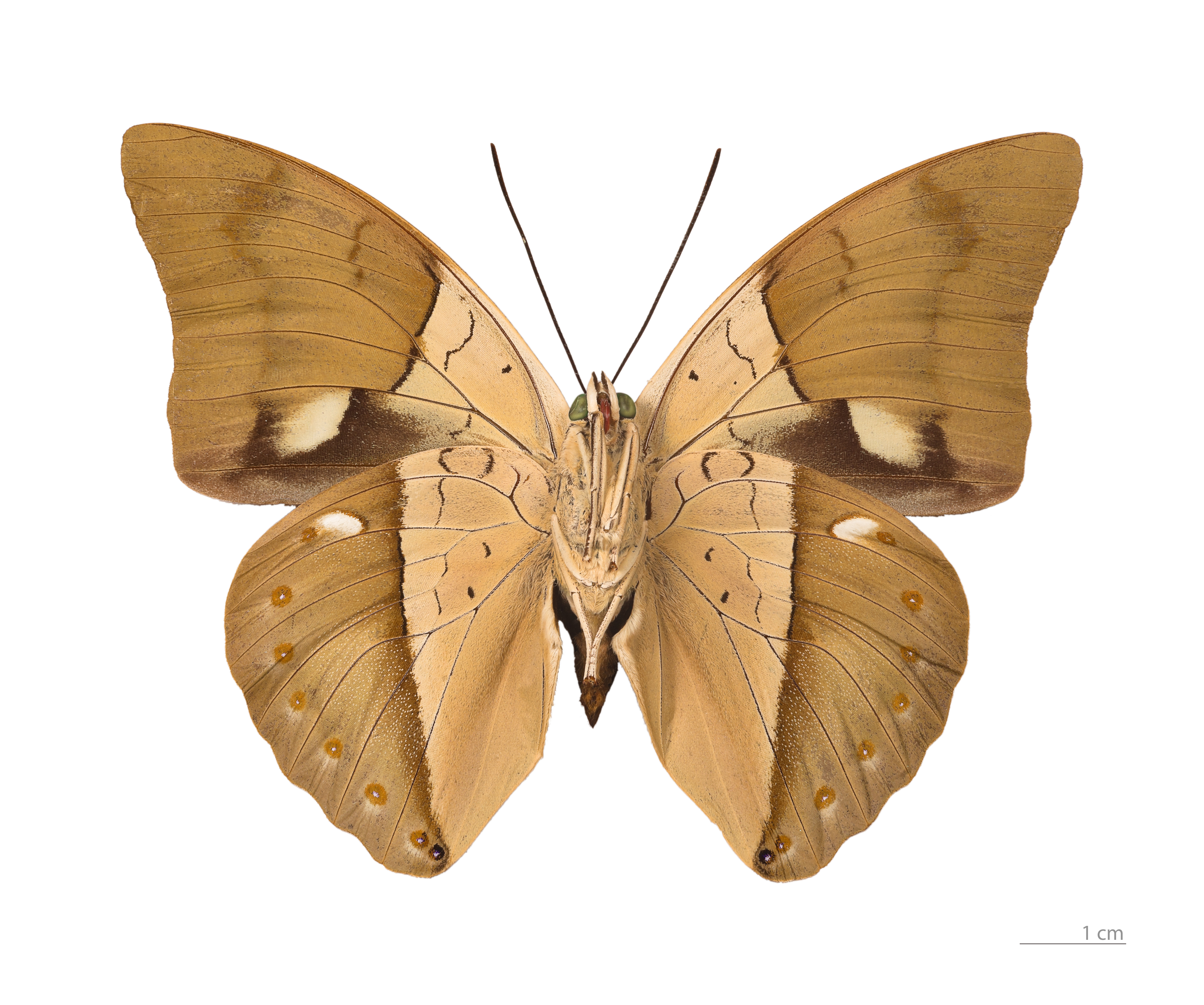 White-spotted Prepona ♂ - △ Ventral side Locality : Satipo, Junín Region, Peru.